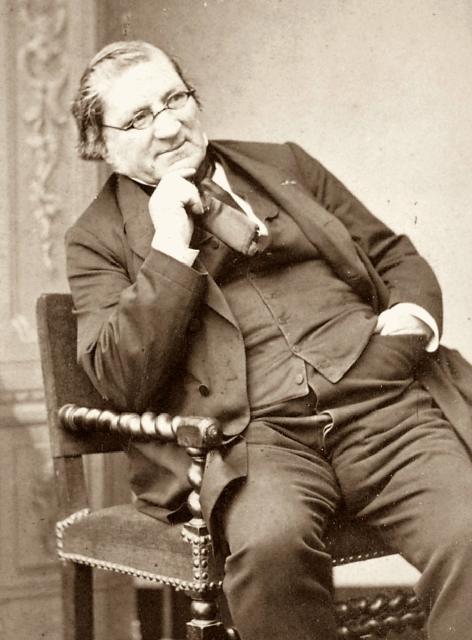 Claude Gay, Botanist from France